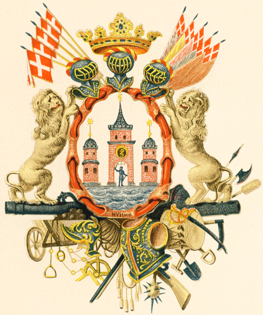 Coat of arms of Copenhagen, Capital city of Denmark. Handmade copy closely resembling the 1661 letter of priviliges issued by King Frederick III. The copy was reprinted in 1894.